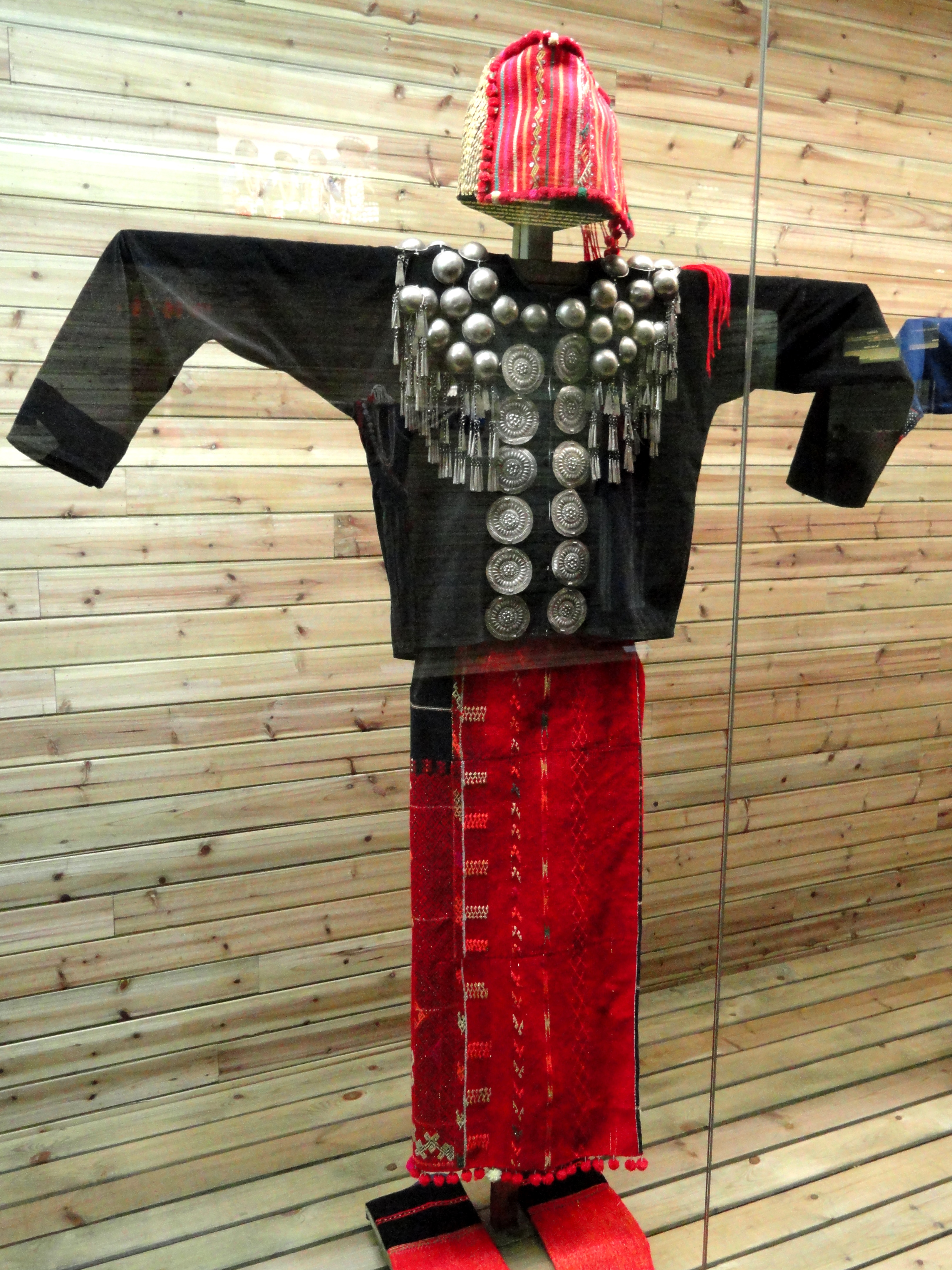 Jingpo woman woolen, silver-ornamented clothes. Clothing exhibited in the Yunnan Nationalities Museum, Kunming, Yunnan, China.